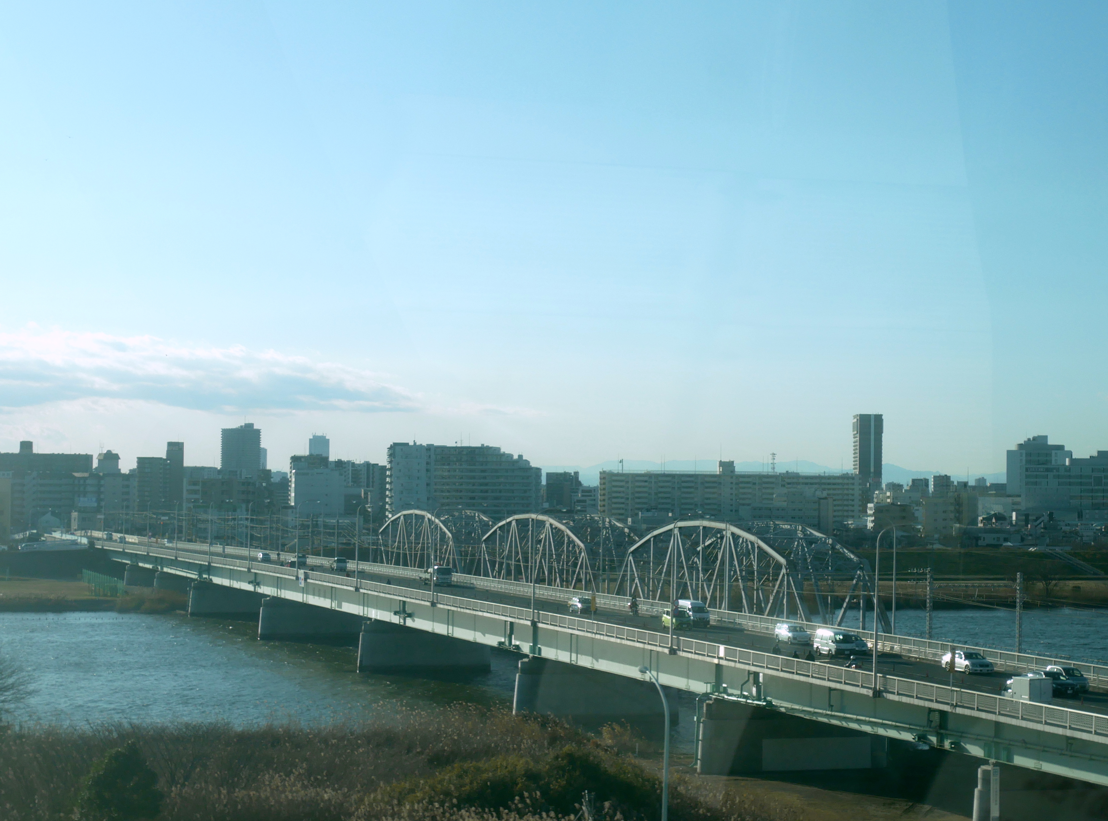 堀切橋 (Horikiri Bridge) Panasonic Lumix DMC-GX7 Mark II